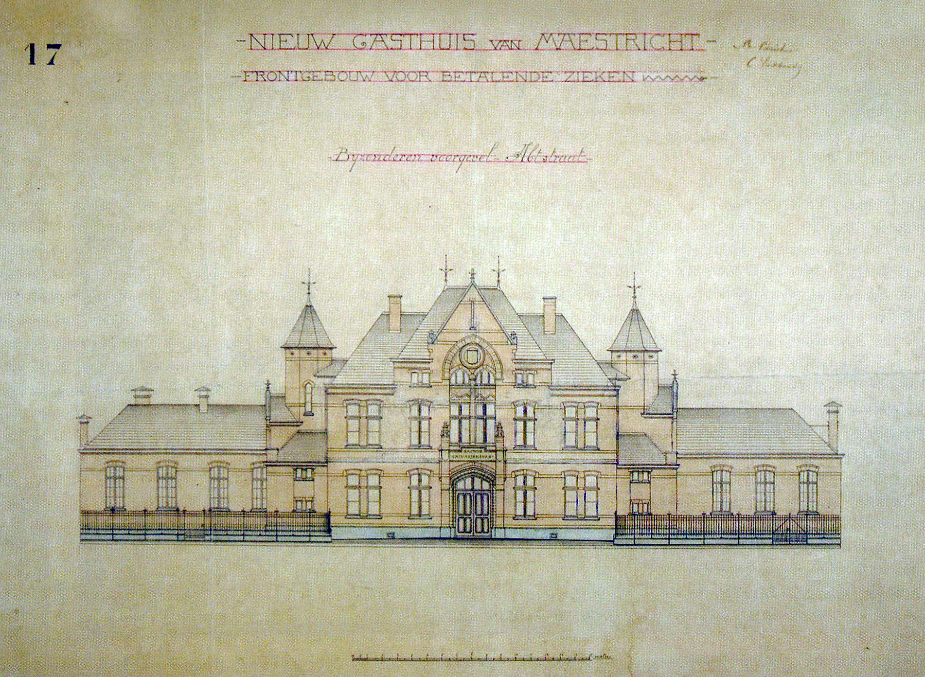 Design for Calvariënberg Hospital in Maastricht, Netherlands. The design shows the east façade of the main pavilion of the so-called "Third Calvariënberg", a large-scale extension of the existing hospital in 1883-1891. The main pavilion for paying patients is now an office building, called Elisabeth House.